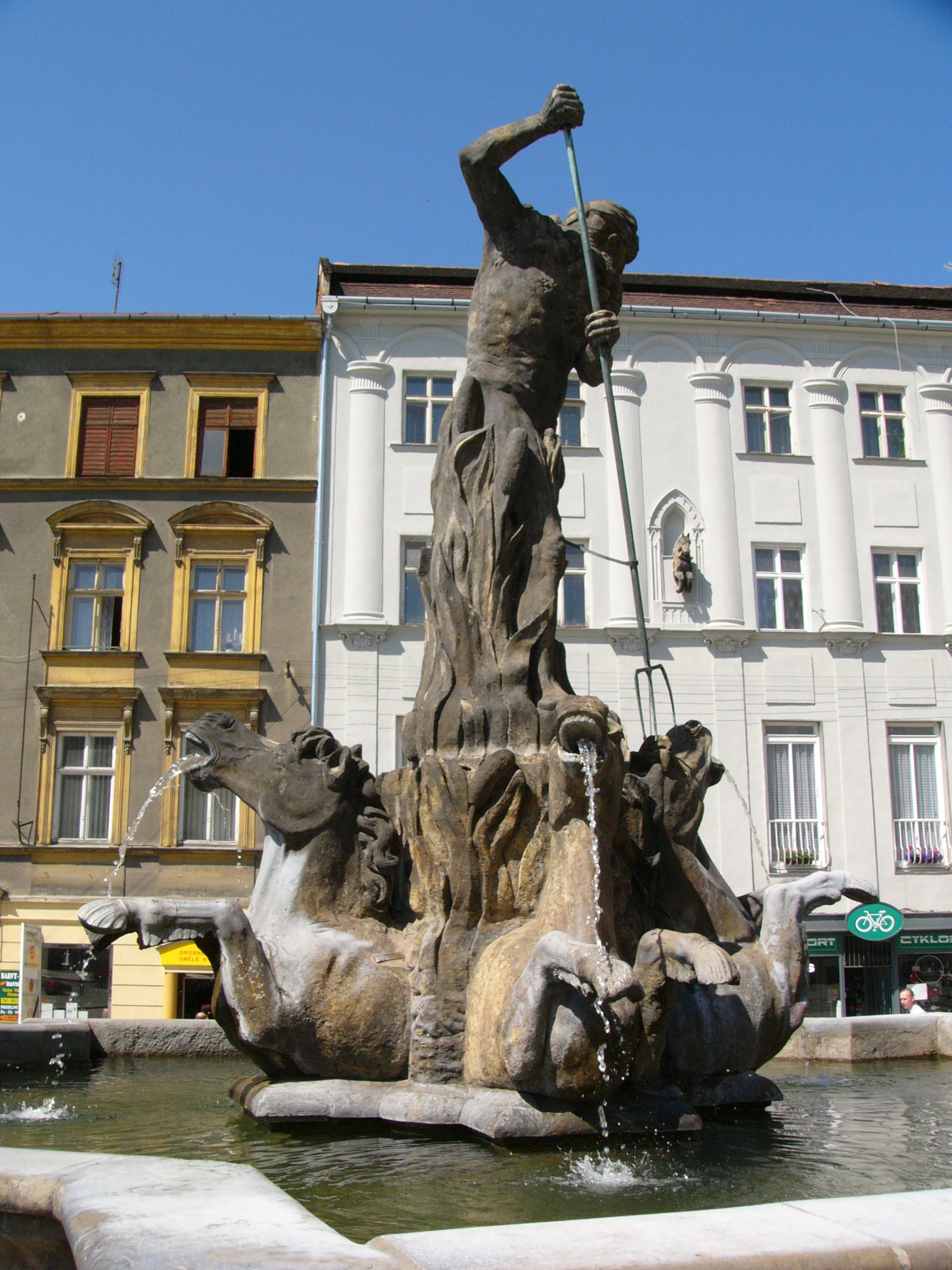 Neptun Fountain in Olomouc (Czech Republic).